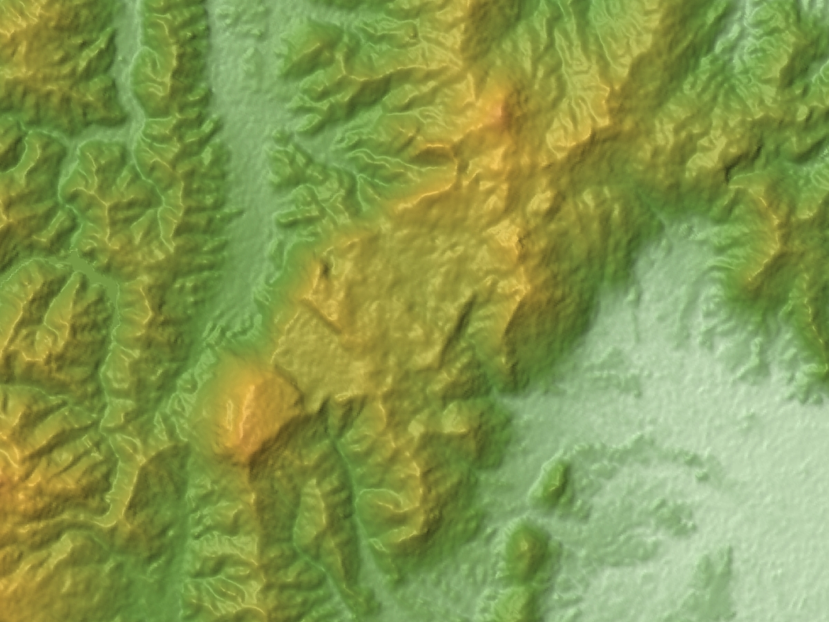 Hiraodai in Fukuoka Prefecture, Kyushu, Japan.